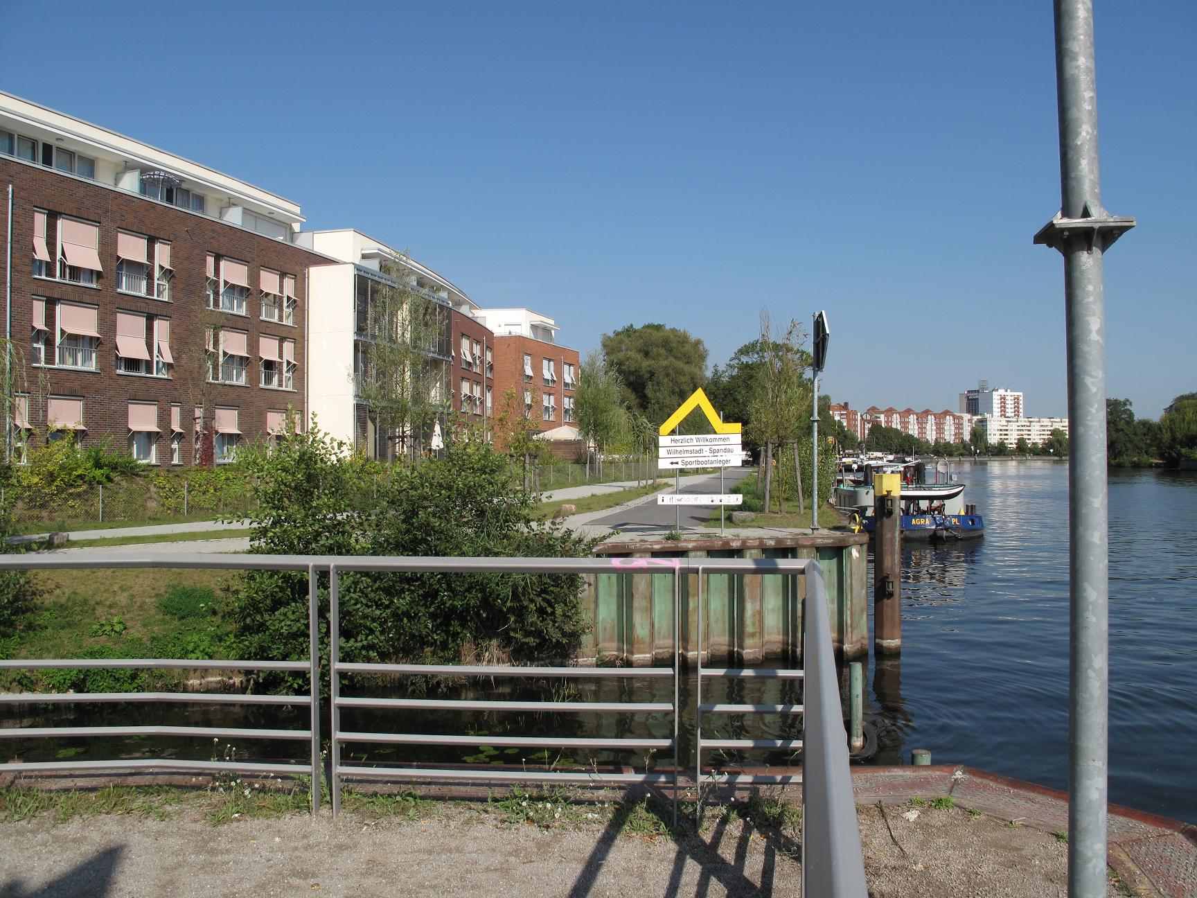 Mouth of the Burgwallgraben to river Havel at the Schiffahrtsufer, part of the green space Bullengraben. The Bullengraben (german for: bullditch) is a drainage channel to the river Havel in the localities Staaken, Wilhelmstadt and Spandau in the borough Berlin-Spandau, Germany. In 2007 there was opened the green space Bullengraben (german: „Grünzug Bullengraben“) along the 4,5 kilometre long ditch.